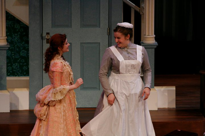 A Doll's House